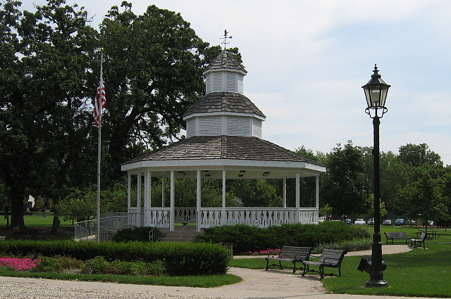 The gazebo located in Bartlett Park, Bartlett IL.